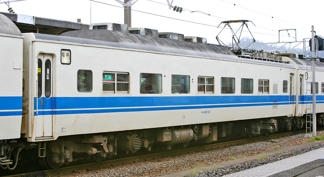 JR West's 419 series EMU at Tsuruga Station ( Moha 418-14 of D14F ).